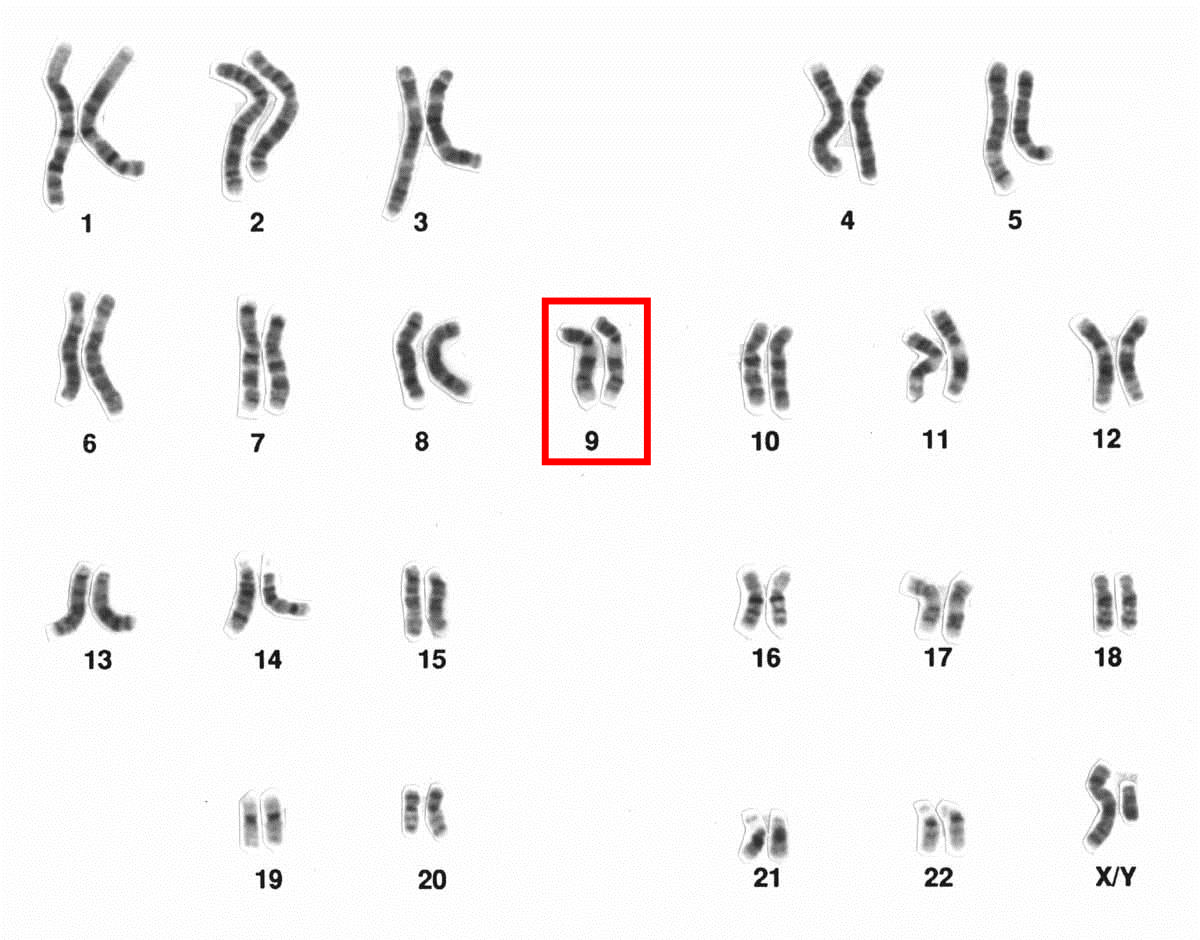 Human male Karyotype after G-banding. Chromosome 9 highlighted.